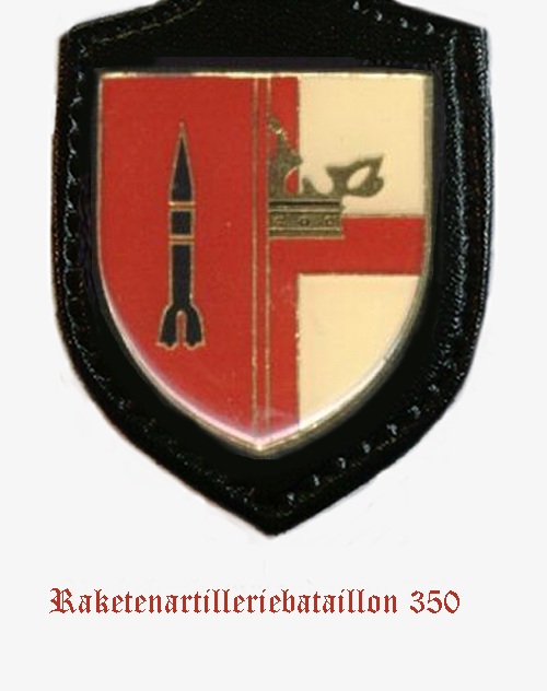 Internal coat of arms Raketenartilleriebataillon 350 (RakArtBtl 350) of the Bundeswehr (Armed Forces of the Federal Republic of Germany). → Remarks on naming and categorization scheme